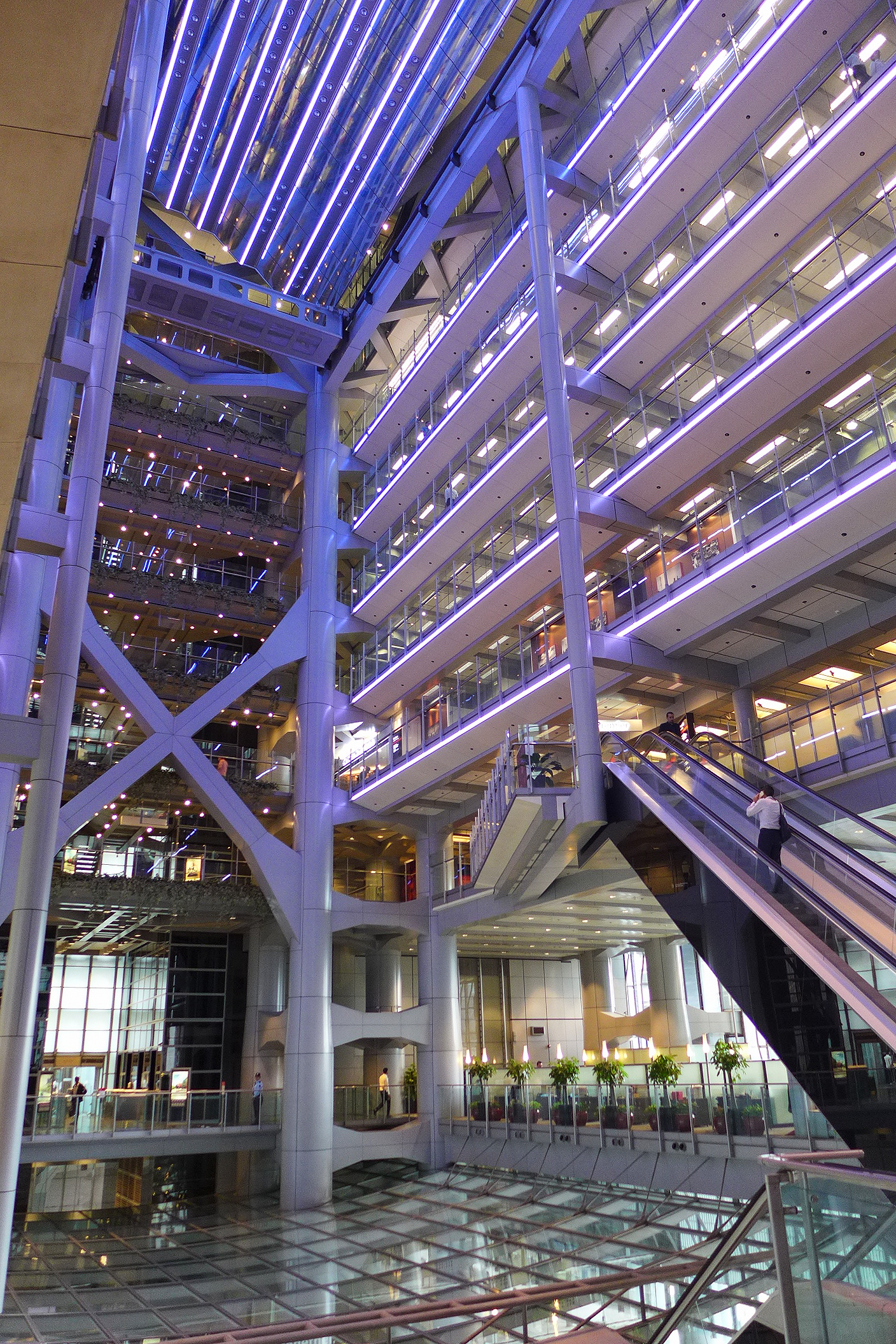 HSBC Main Building Atrium